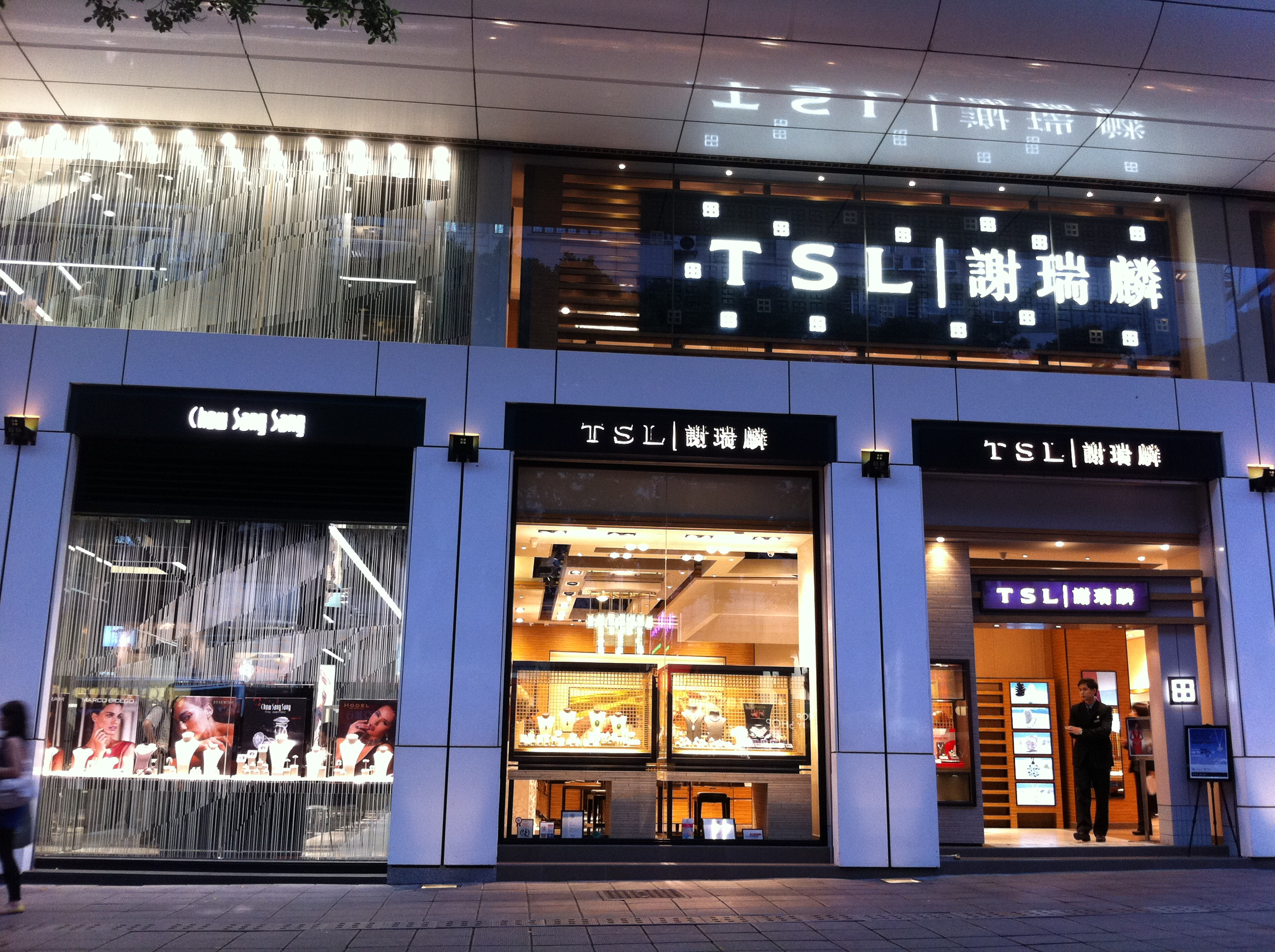 Nathan Road, Tsim Sha Tsui, Hong Kong